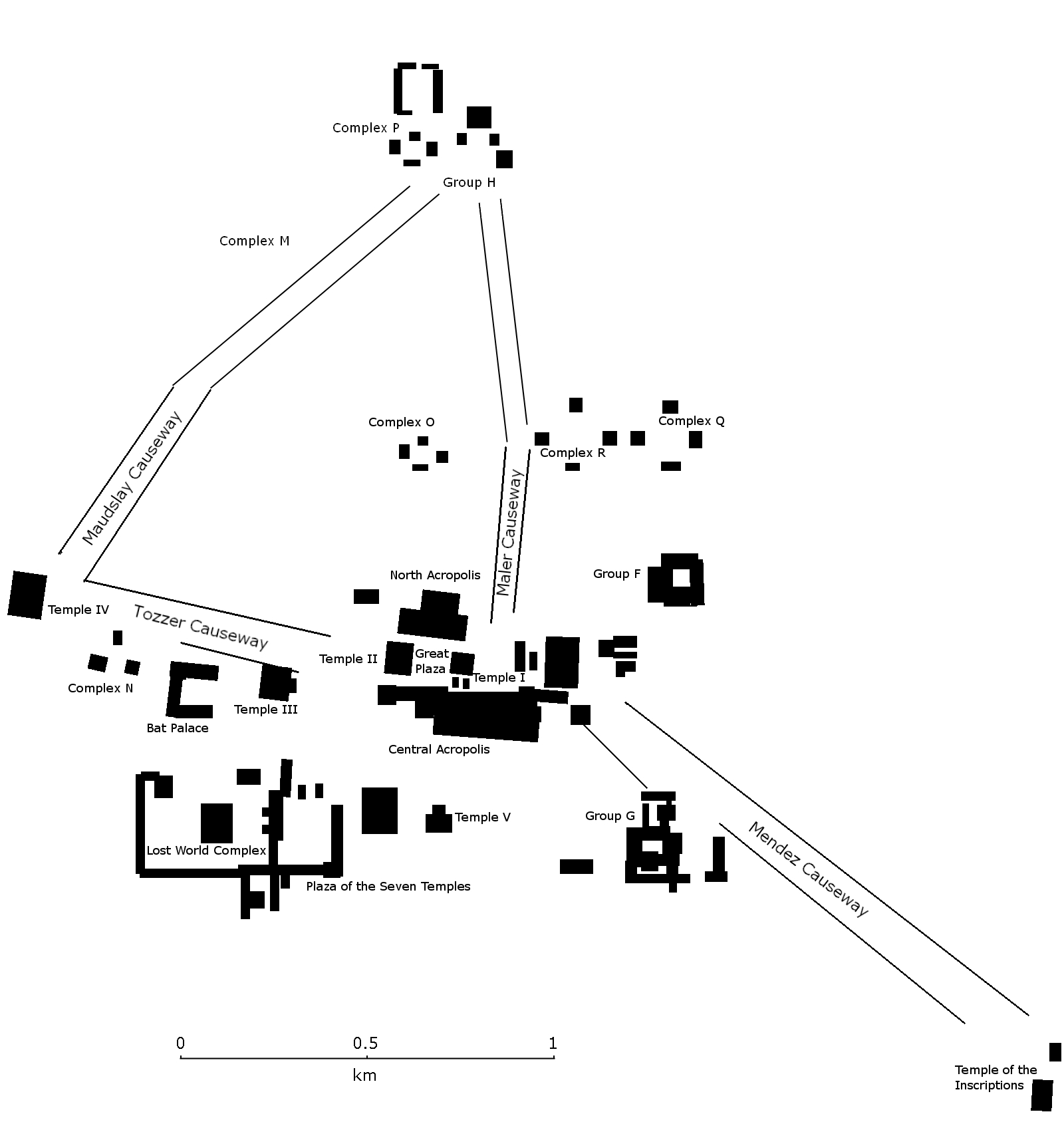 Map of the site core of Tikal, showing the major structures of the Mayan site. Located in Petén, Guatemala.